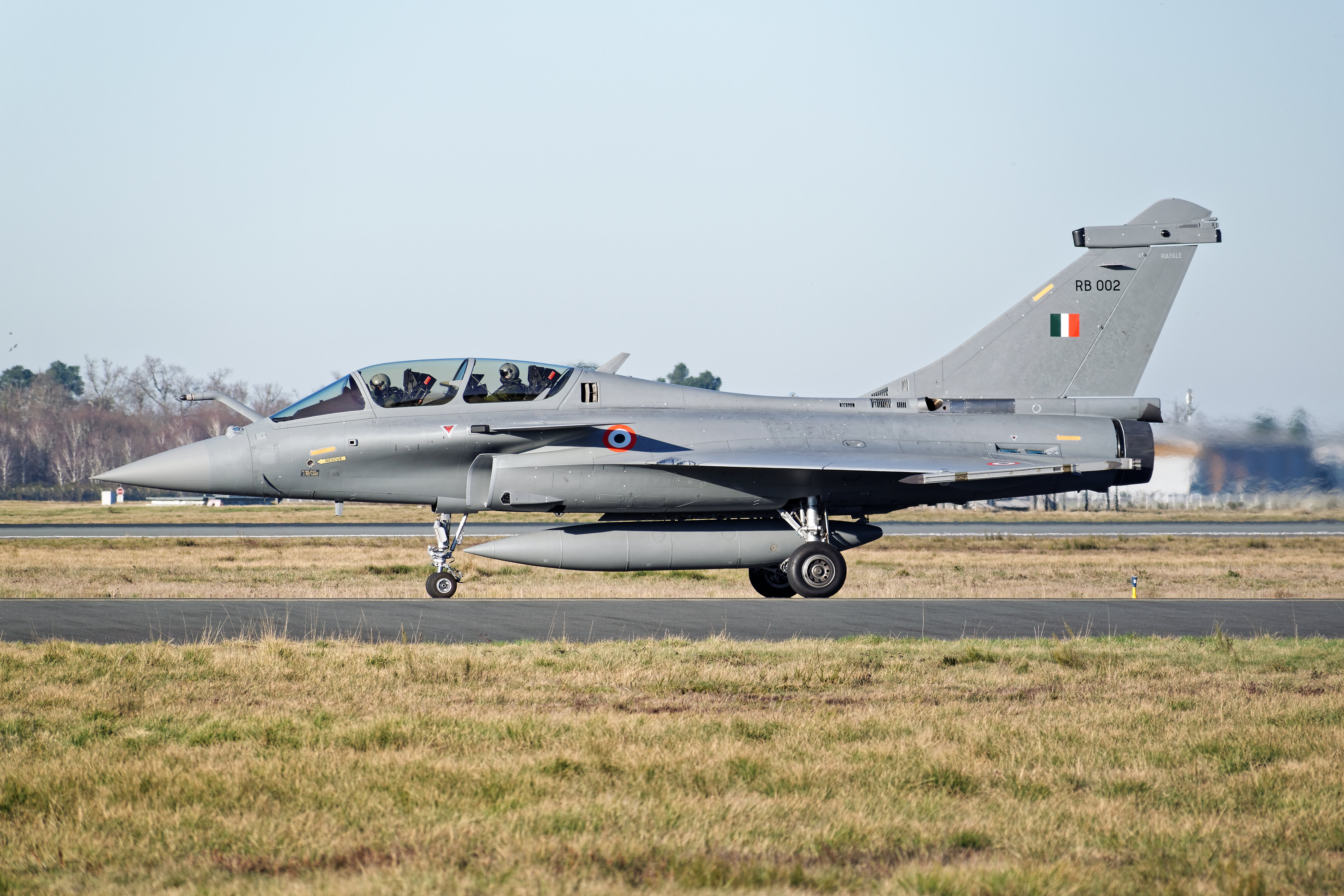 RB-002 - Dassault Rafale - Indian Air force LFBD Airport Aéroport de Bordeaux-Mérignac